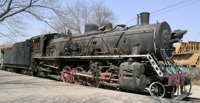 解放蒸汽车头 JF1-2023 locomotive made in 1960s smartneddy 2005年3月摄于玲珑公园